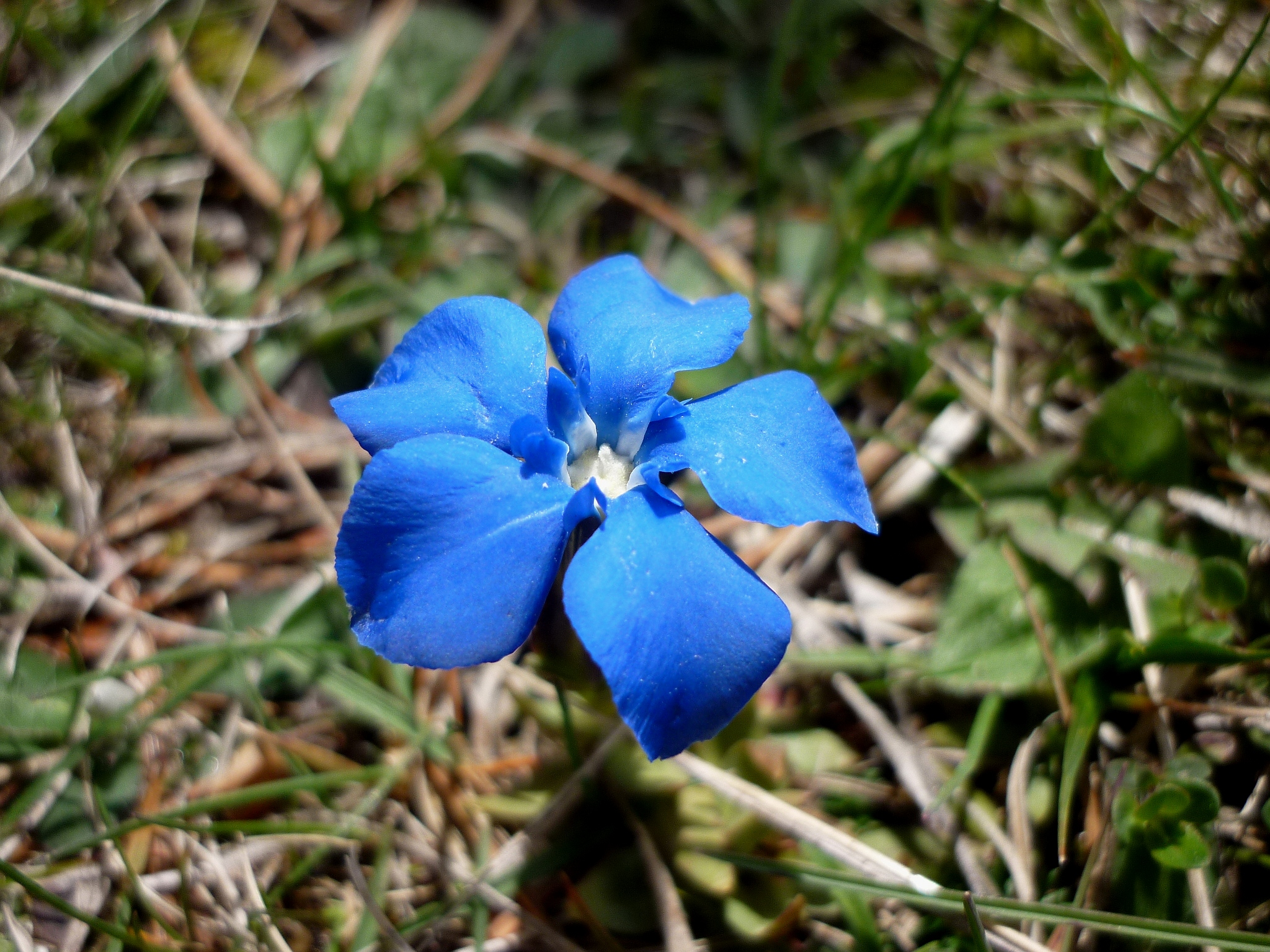 Gentiana verna. In la Bòfia, Odèn (Solsonès - Catalunya). To 1.740 m. altitude